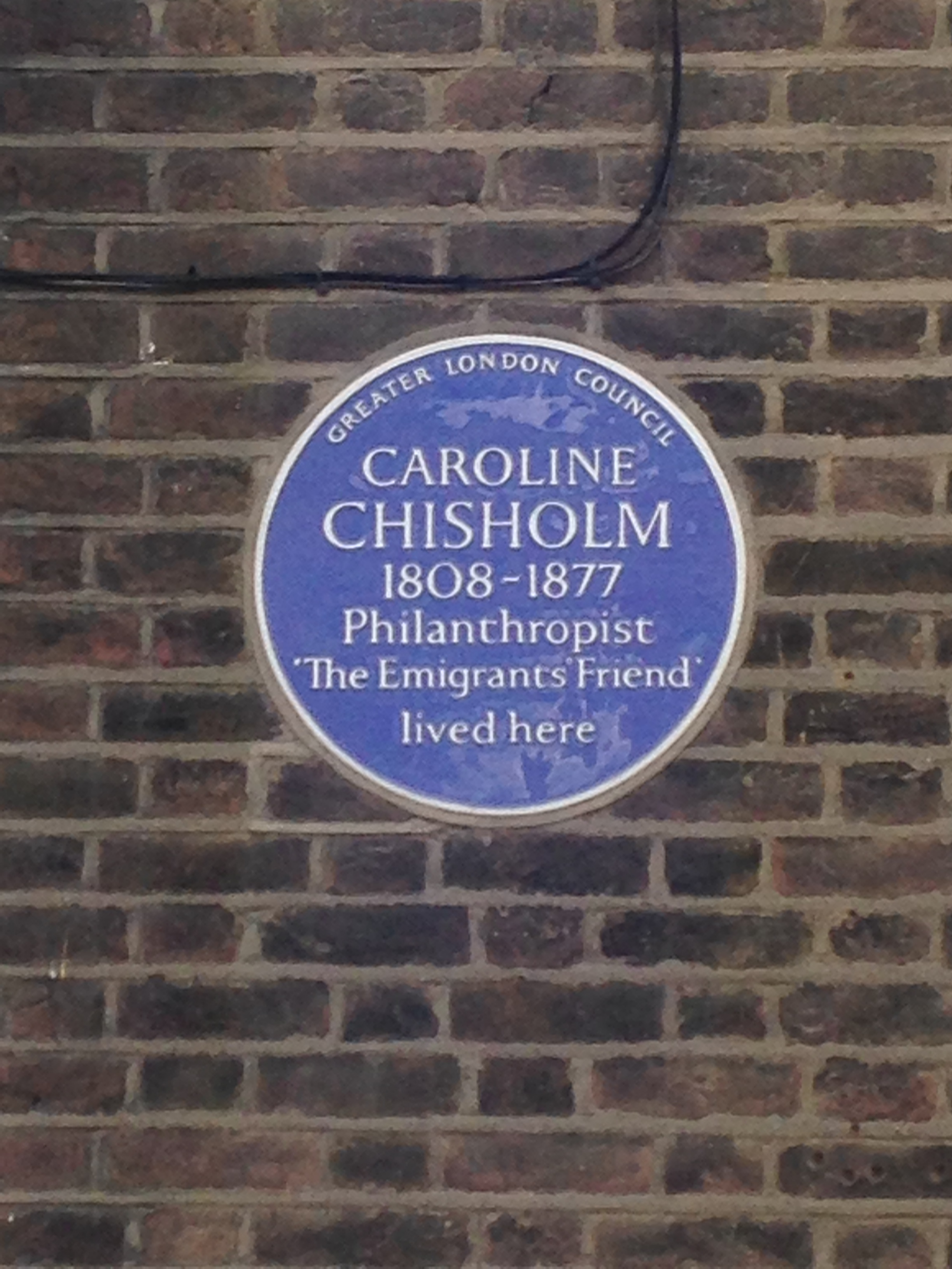 The Greater London Council blue plaque for Caroline Chisholm at 32 Charlton Place, Islington, N1 8AJ, in the London Borough of Islington.